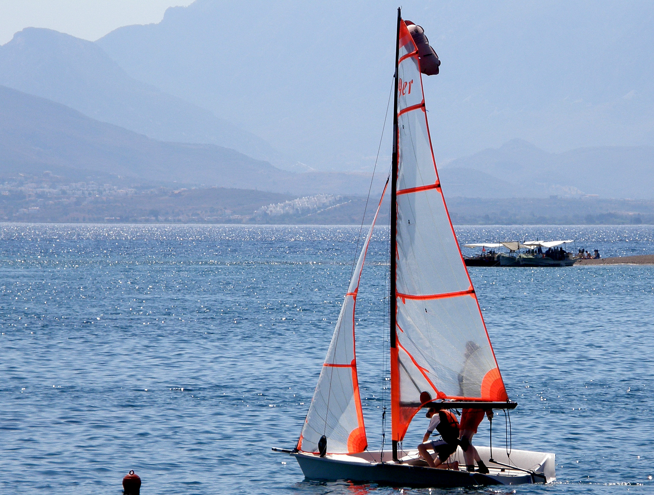 The 29er is a skiff designed by Julian Bethwaite and first produced in 199829er going out